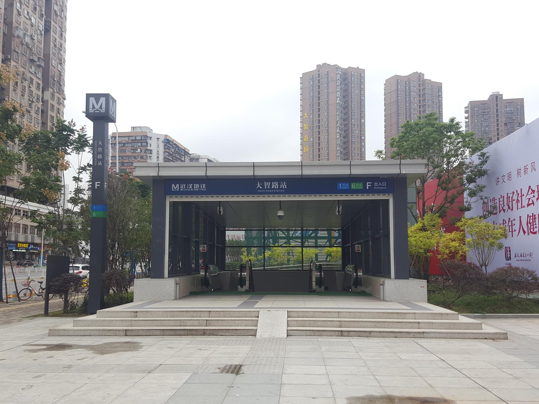 Entrance F of Dazhi Road Station, Wuhan Metro